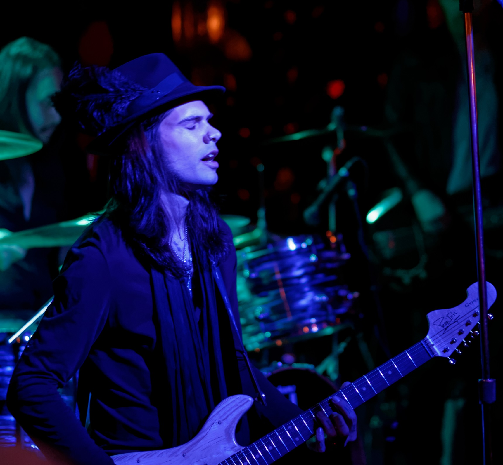 Nick Perri performing live at the Three Clubs cocktail lounge in Los Angeles California on Thursday May 15th, 2014.